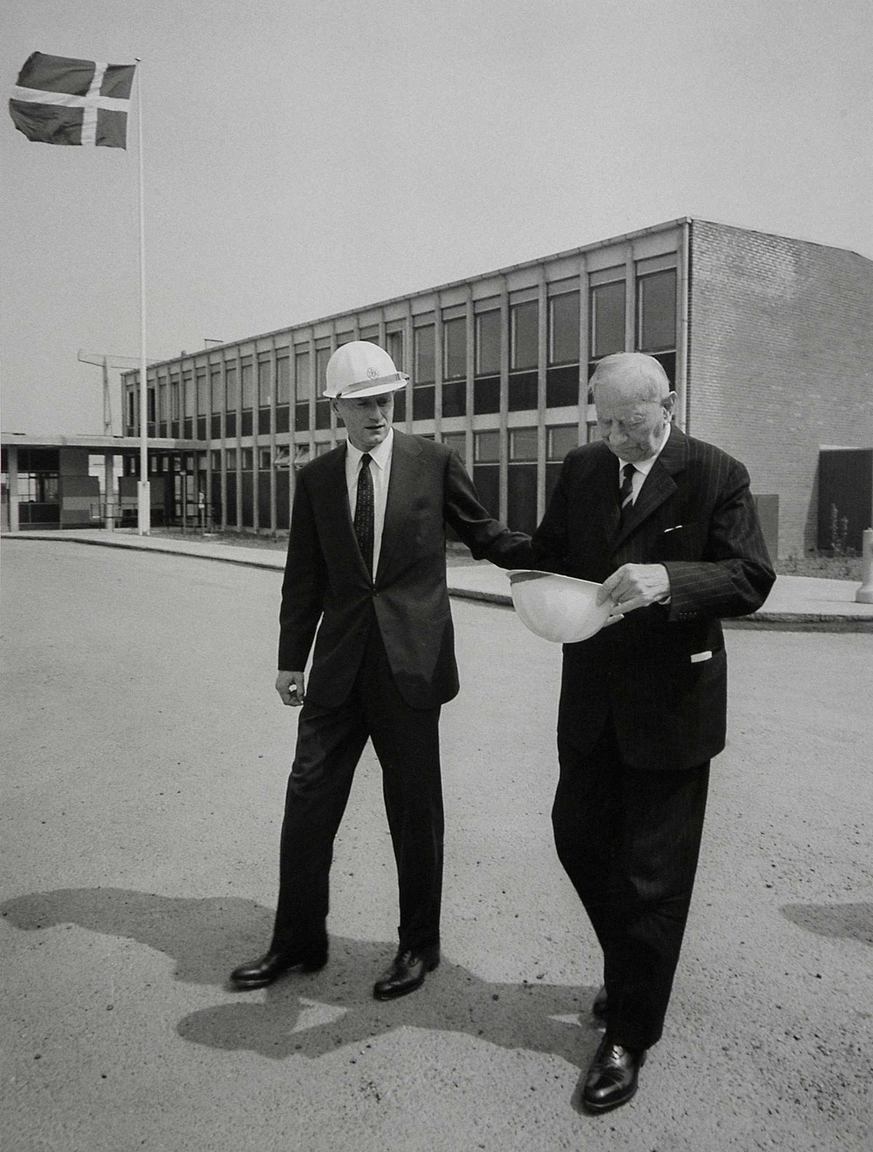 A.P. Møller and Mærsk Mc-Kinney Møller at the inauguration of Danbritkem on 19 June 1962.